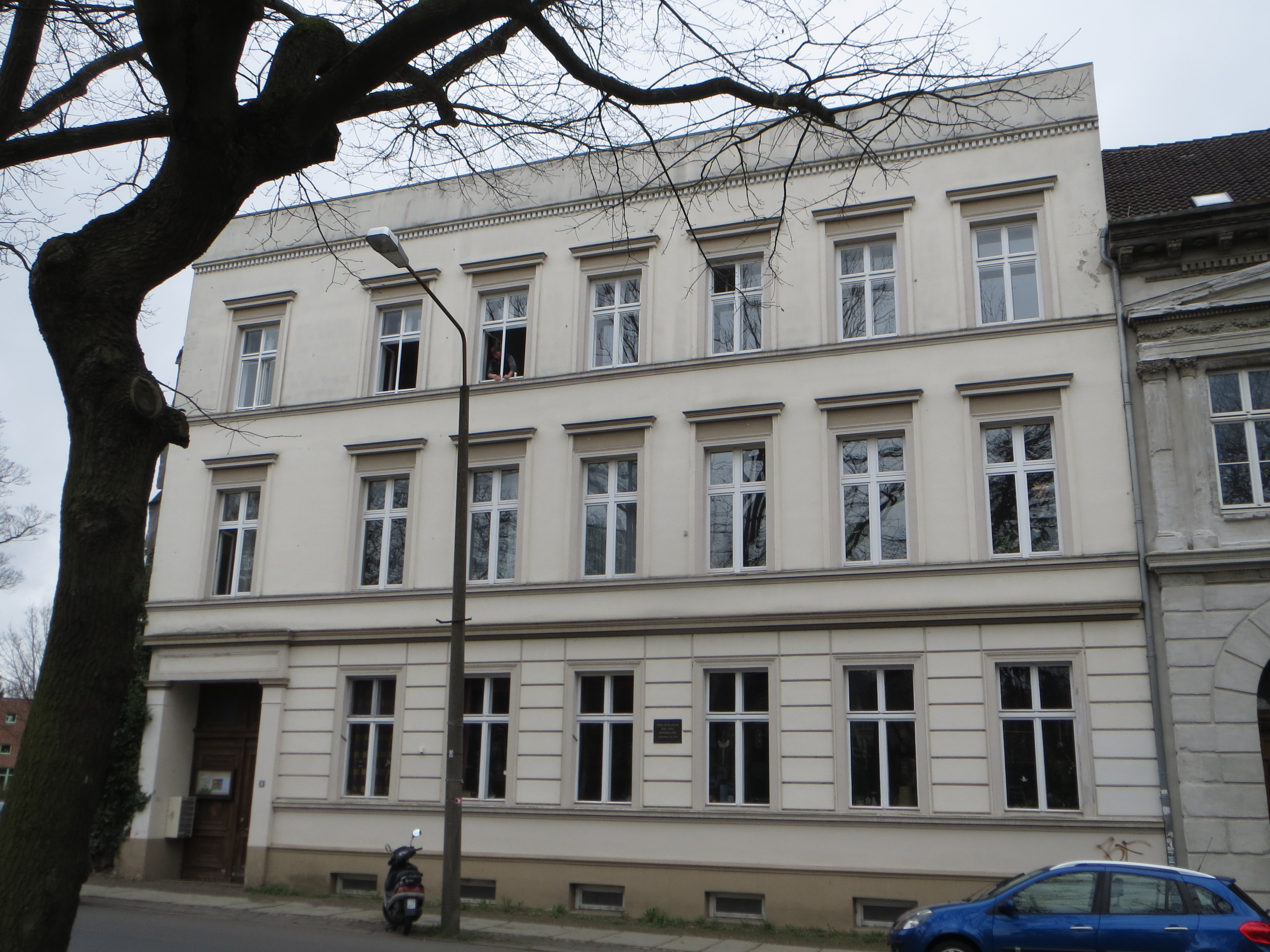 Karl-Marx-Platz 18, Greifswald